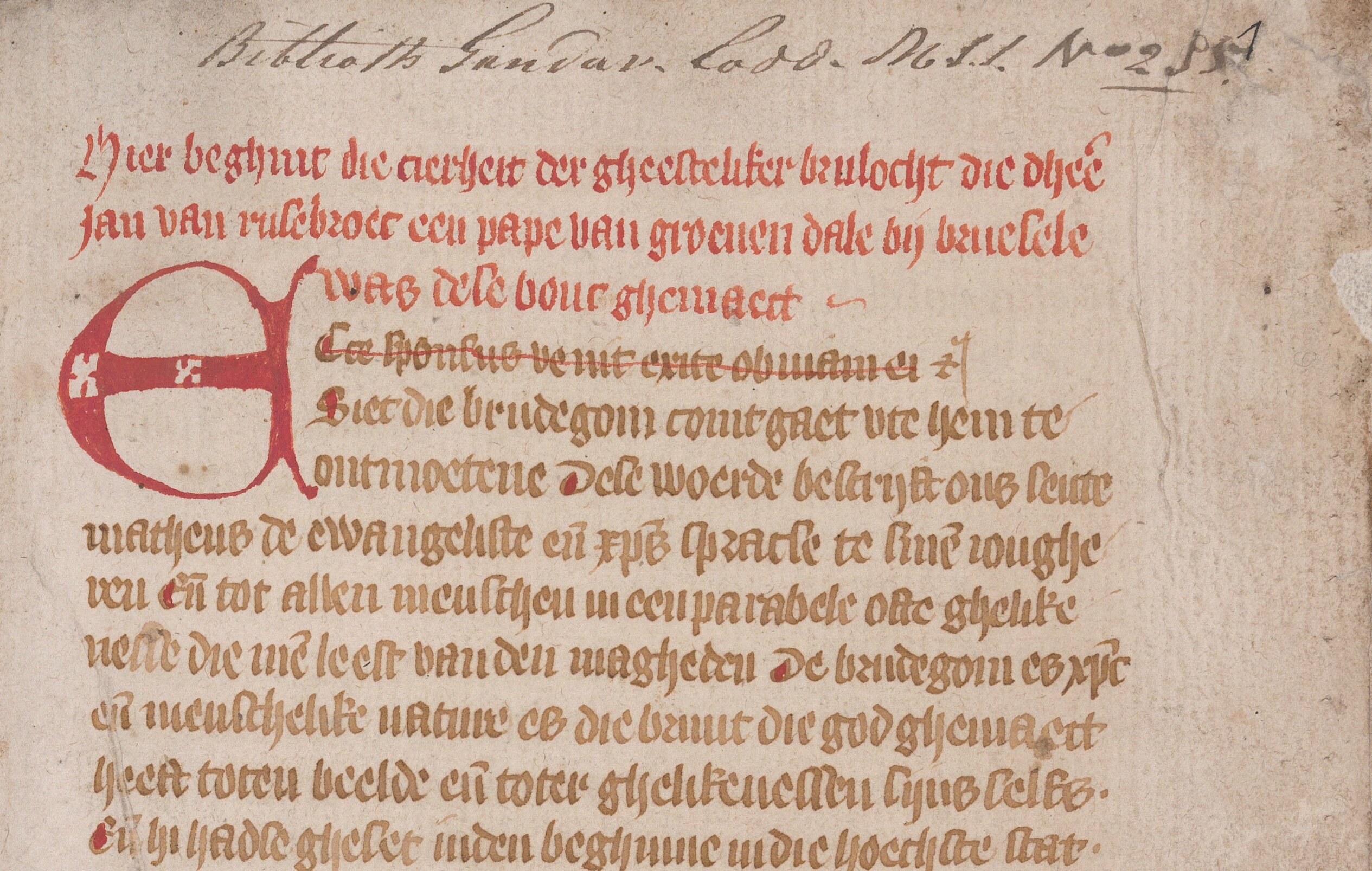 Die cierheit der gheesteliker brulocht (ff. 1r-89v); andere devotie teksten (ff. 89v-94r). Vlaanderen, 1e helft 15e eeuw.